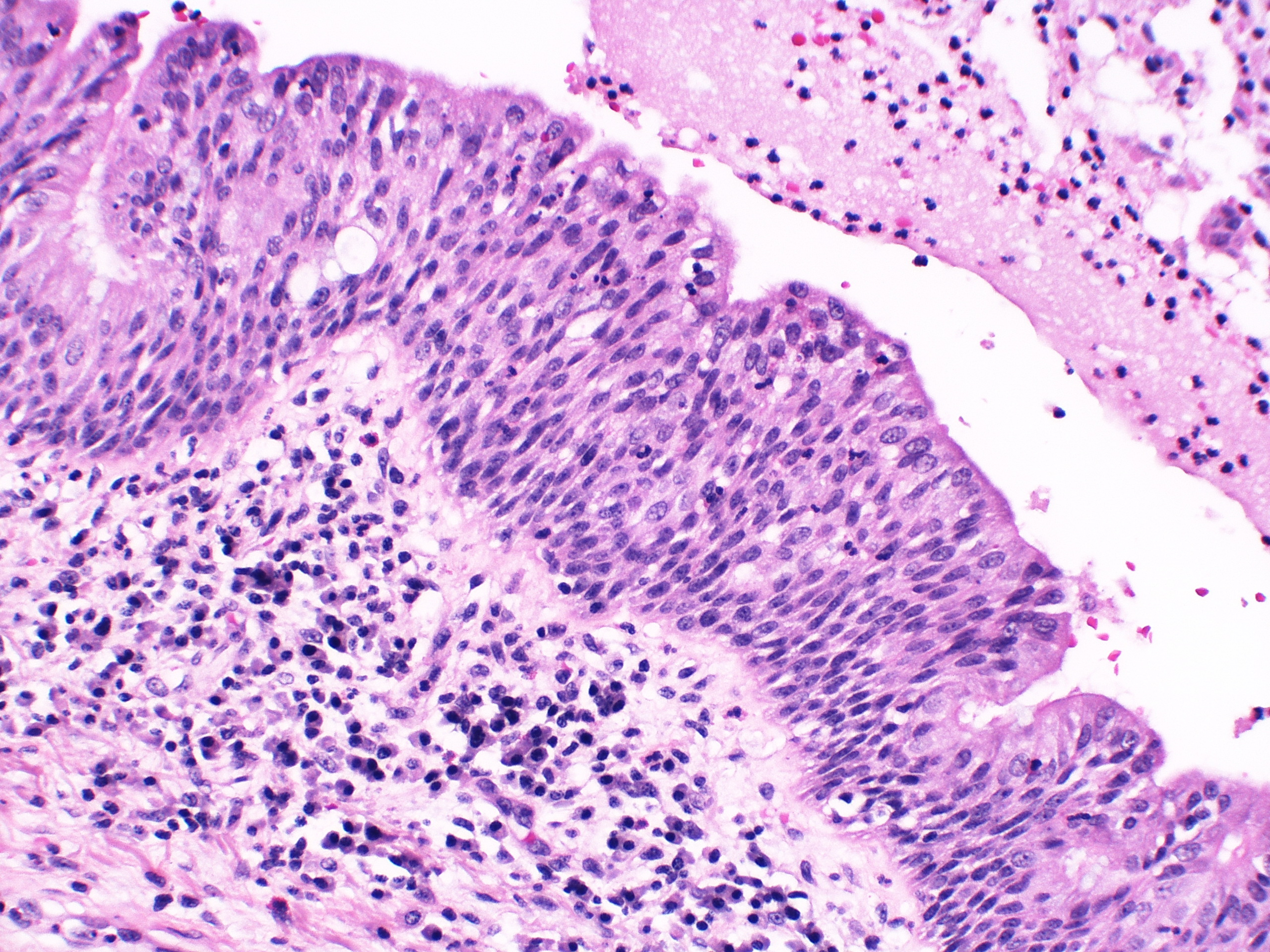 This bronchial mucosal lesion was found in a lobectomy specimen containing a poorly differentiated large cell carcinoma. The appearance is consistent with moderate dysplasia. ANY OTHER SUGGESTIONS?